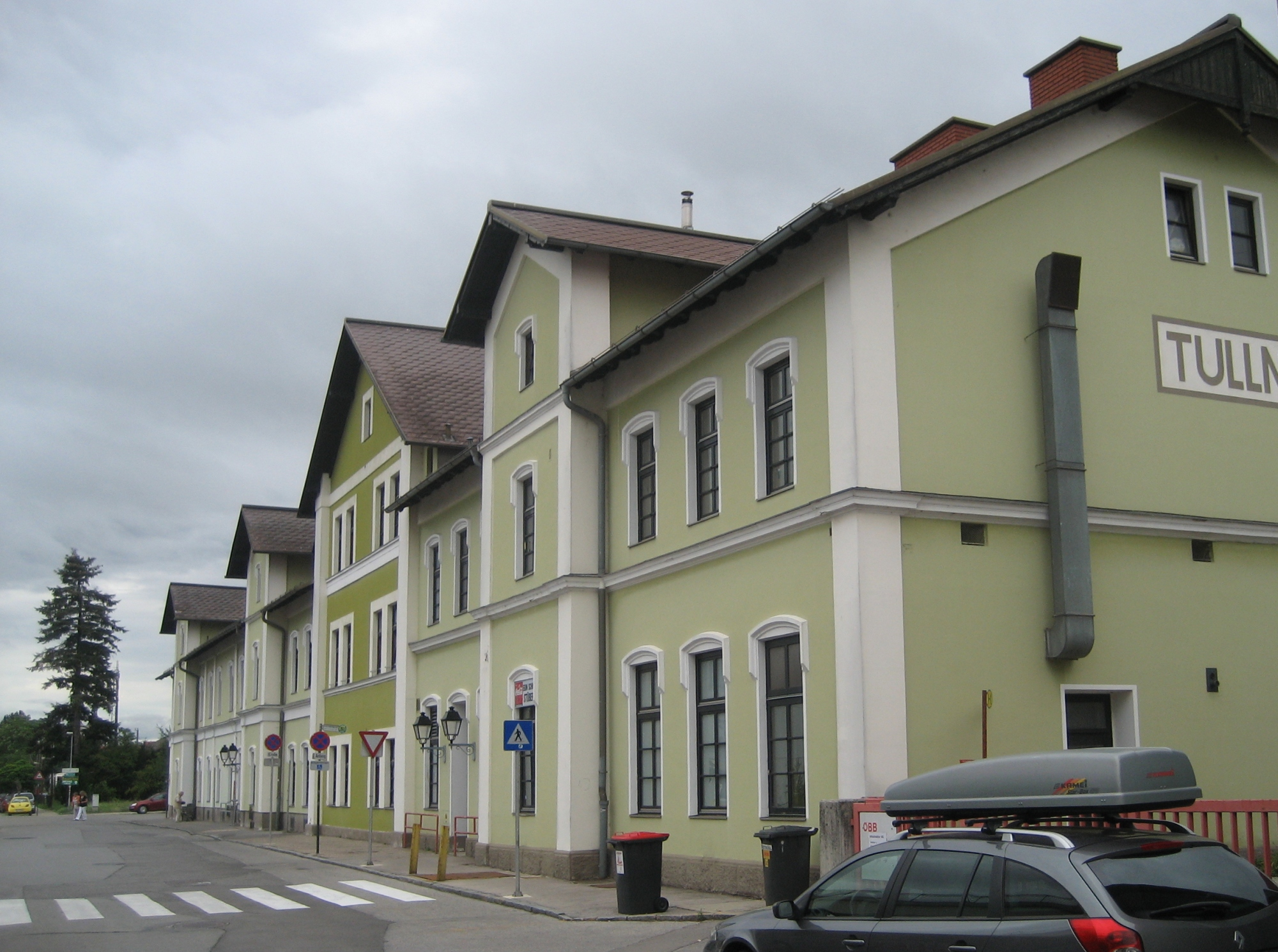 train station Tulln, in Lower Austria